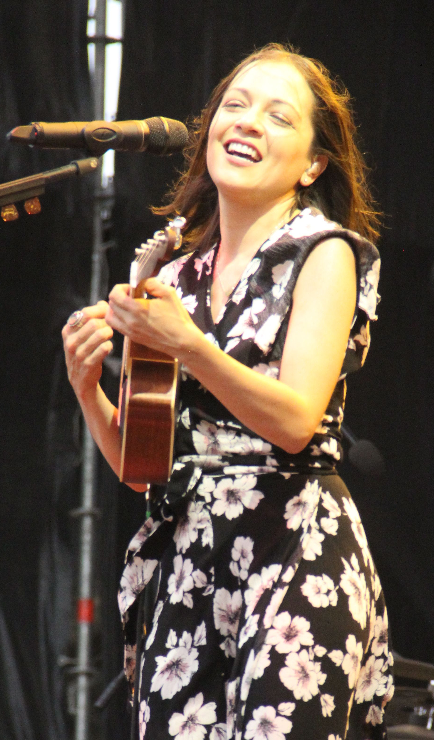 Croped image of Natalia Lafourcade in 2017